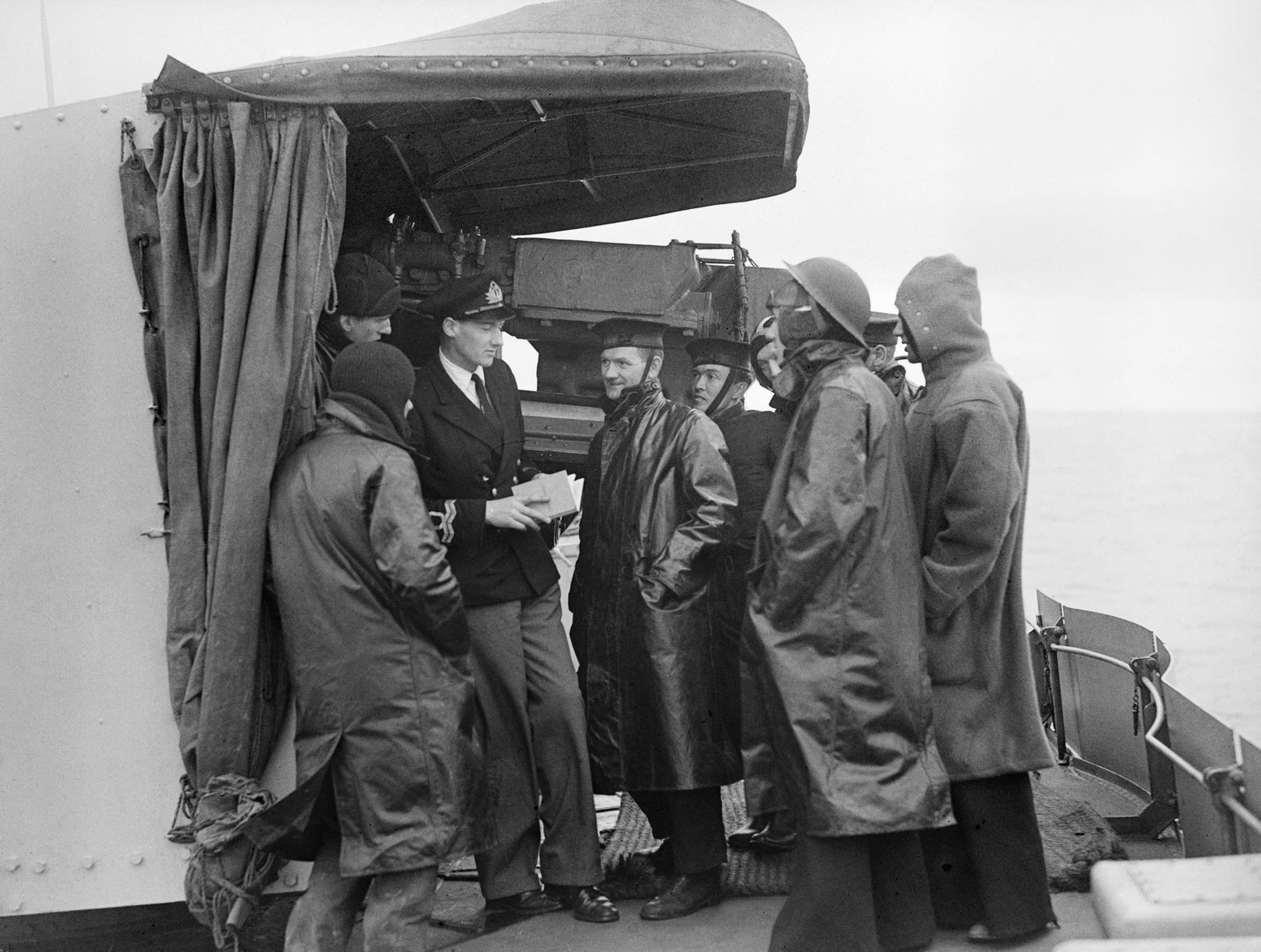 Allied Naval Reconnaissance in Enemy Waters. 25 To 29 July 1943, on Board HMS Greenville during a Large Scale Reconnaissance Carried Out by British and American Battleships, Cruisers, Aircraft Carriers and Destroyers. Four Enemy Aircraft Trying To Shadow the Group Were Shot Down. On board HMS GREENVILLE during the operation. The doctor pays a visit to gun crews at action station and gives them a refresher course in first aid.